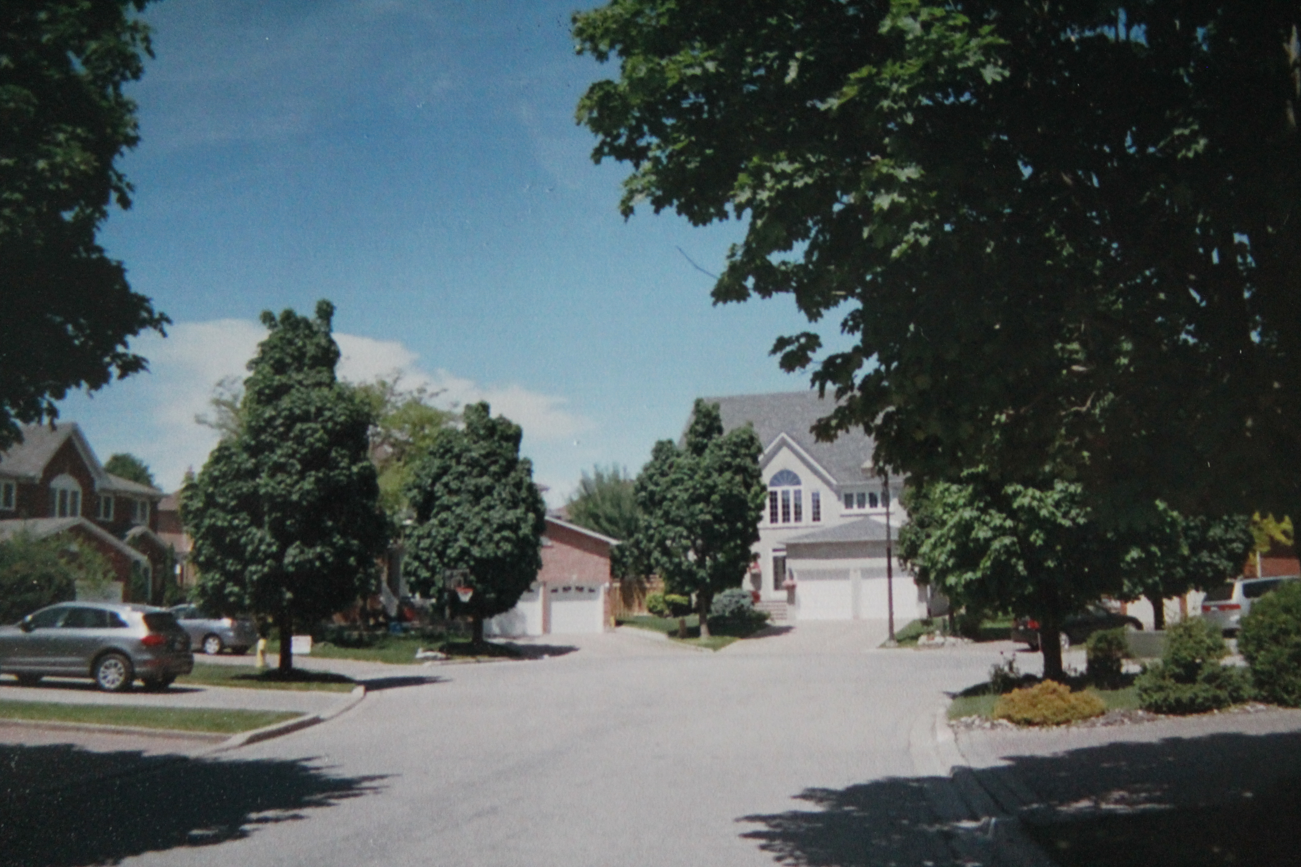 laberta court in buttonville